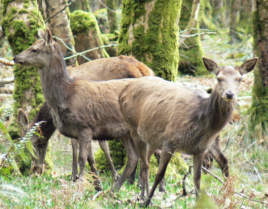 Some female red-deer in Killarney National Park.Hinds